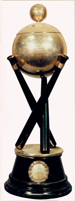 Cy Young Award created by Shreve, Crump & Low in 1908.